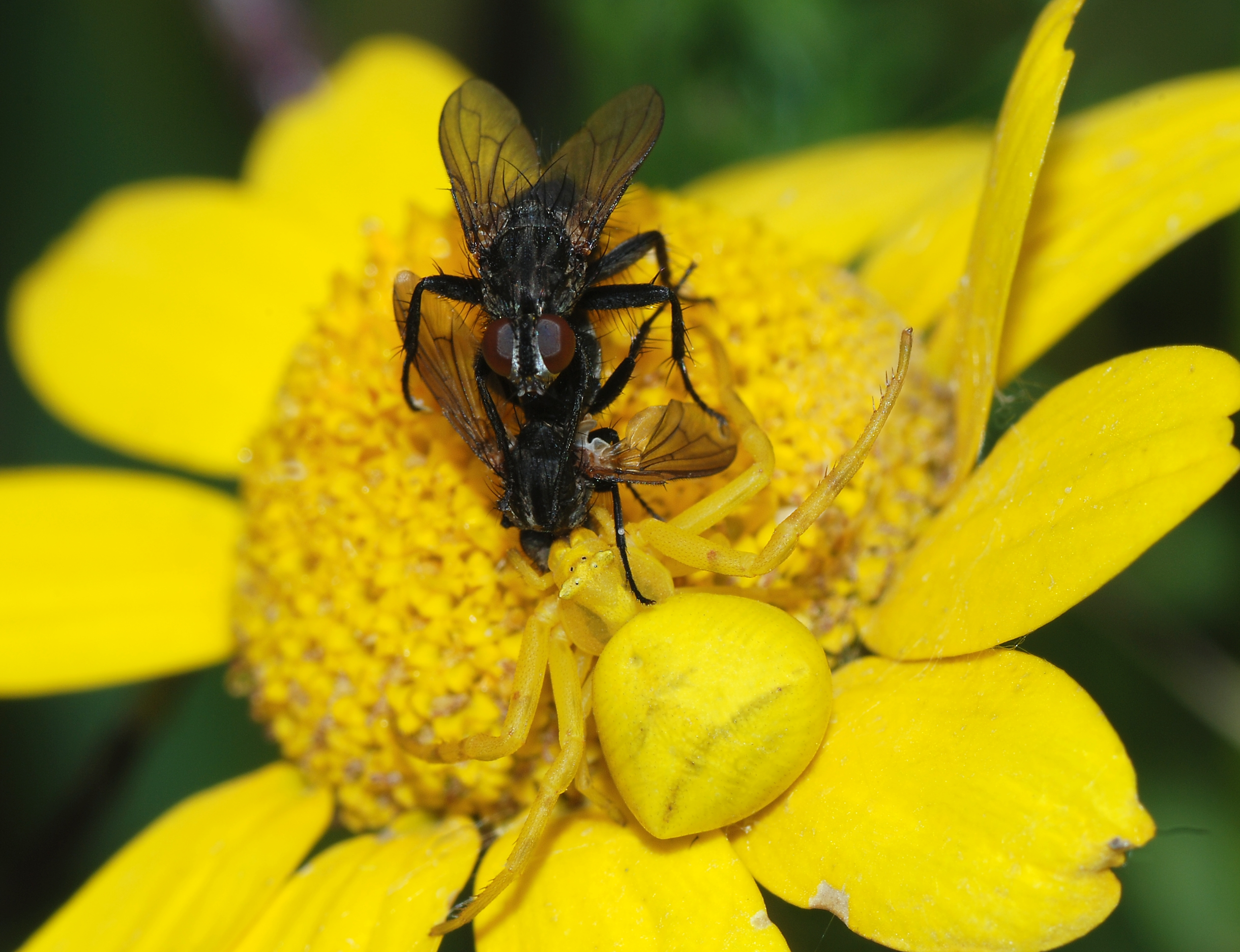 Crab spider (Thomisus onustus) capturing the more convenient (the female) of a couple of mating flies. The male fly probably escaped in due course because the spider cannot eat more than one fly at a time and the crab spider has no web in which to store food for later.